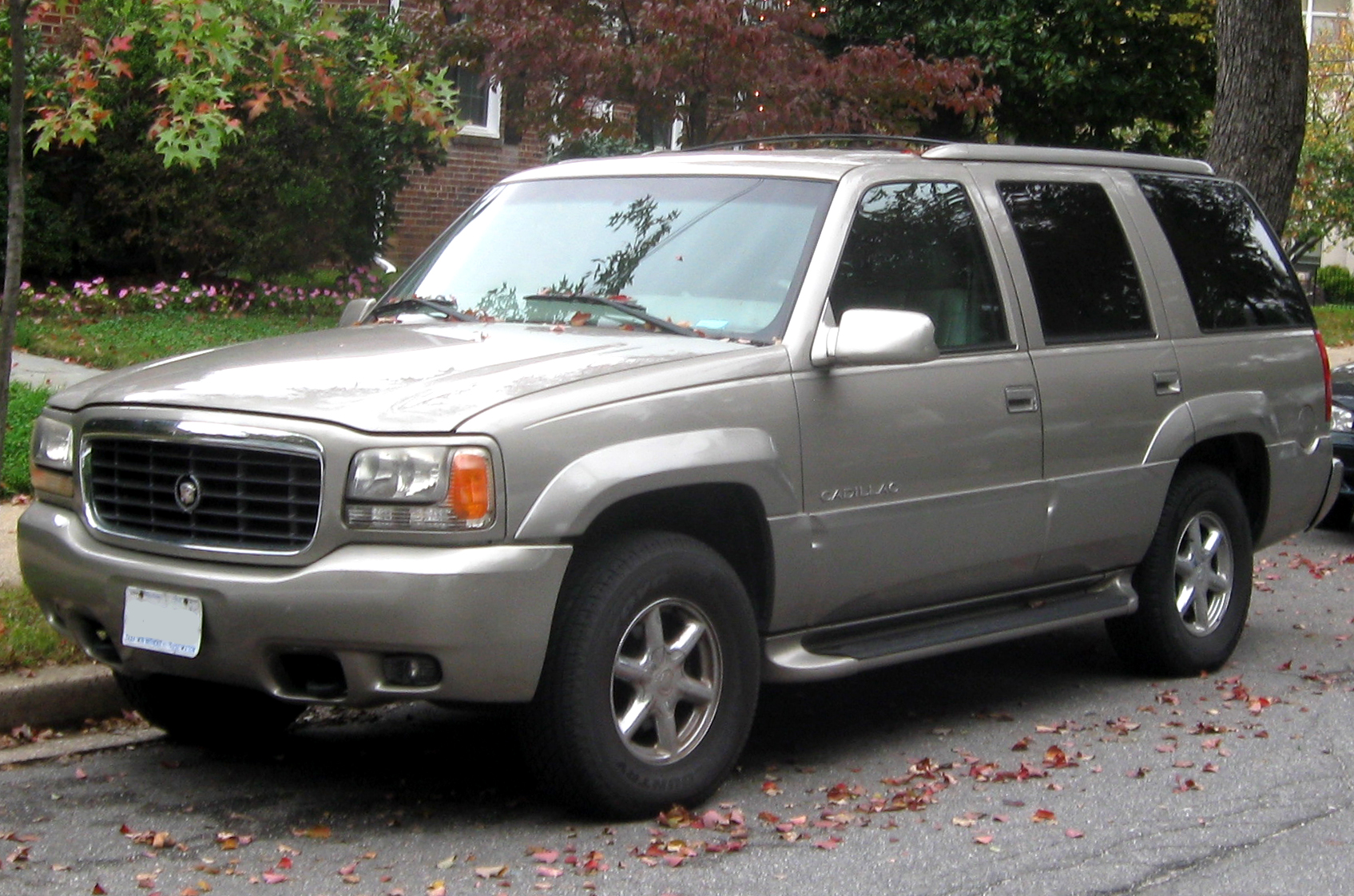 1999-2000 Cadillac Escalade photographed in Washington, D.C., USA.